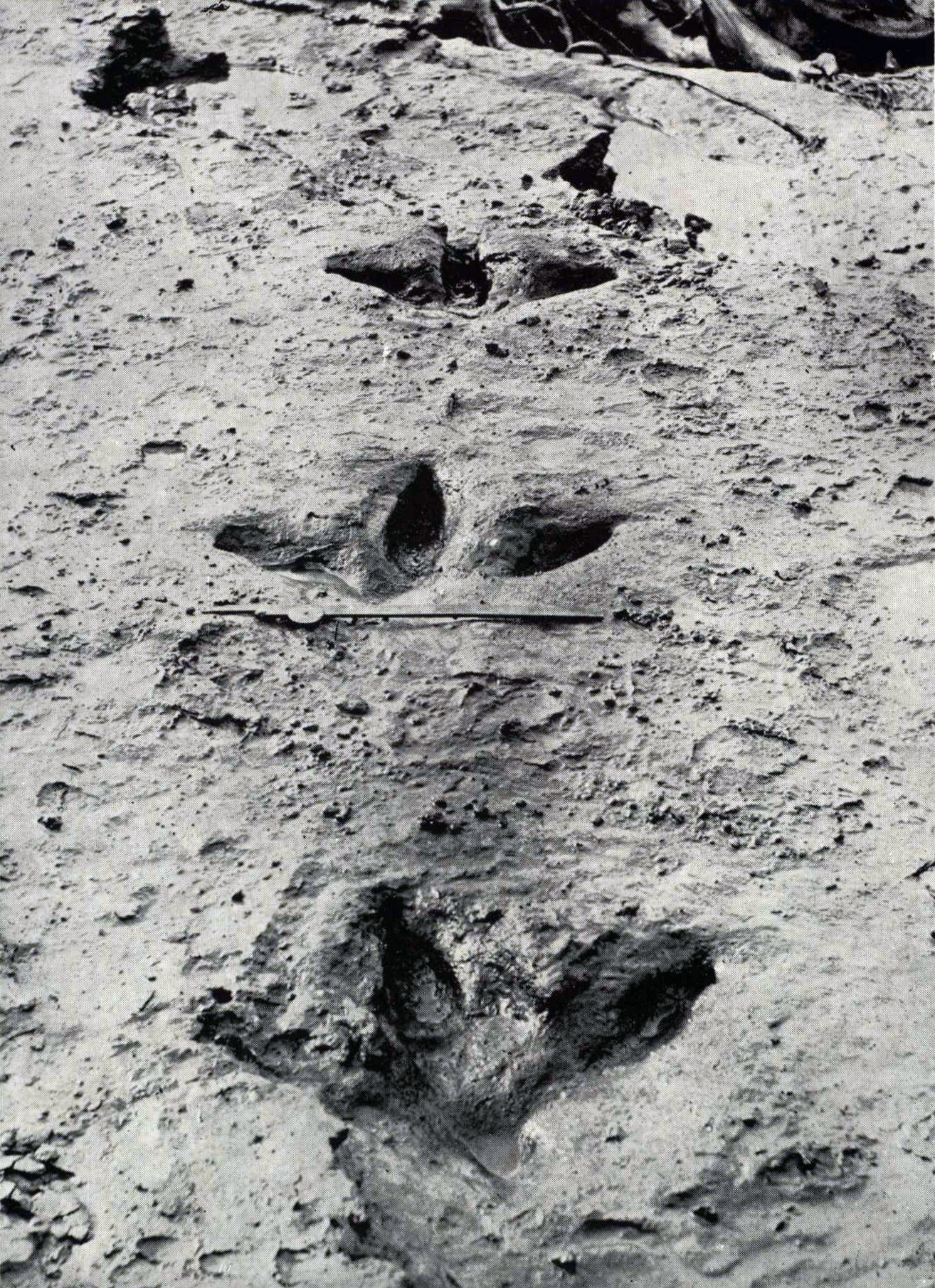 These footprints of Dinornis robustus were exposed in August 1911 when a flood in the Manawatū River swept away the blue clay that had covered and preserved them. They show that the moa had three strong front-pointing toes and, unlike most other ratites, a small rear toe. K. Wilson, 'Footprints of the moa.' Transactions of the Royal Society of New Zealand 45 (1912): plate 2